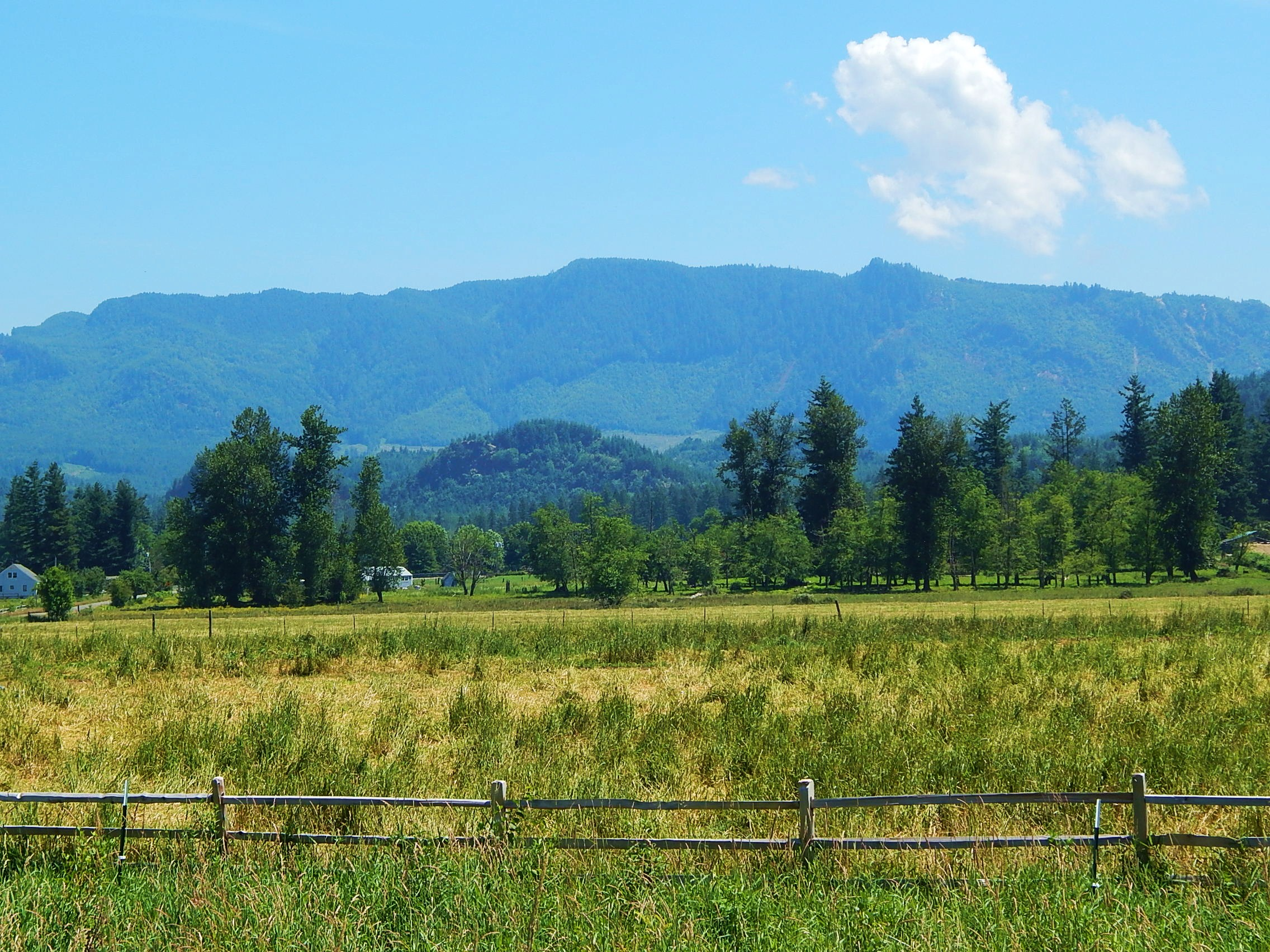 Boise Ridge near Enumclaw, Washington